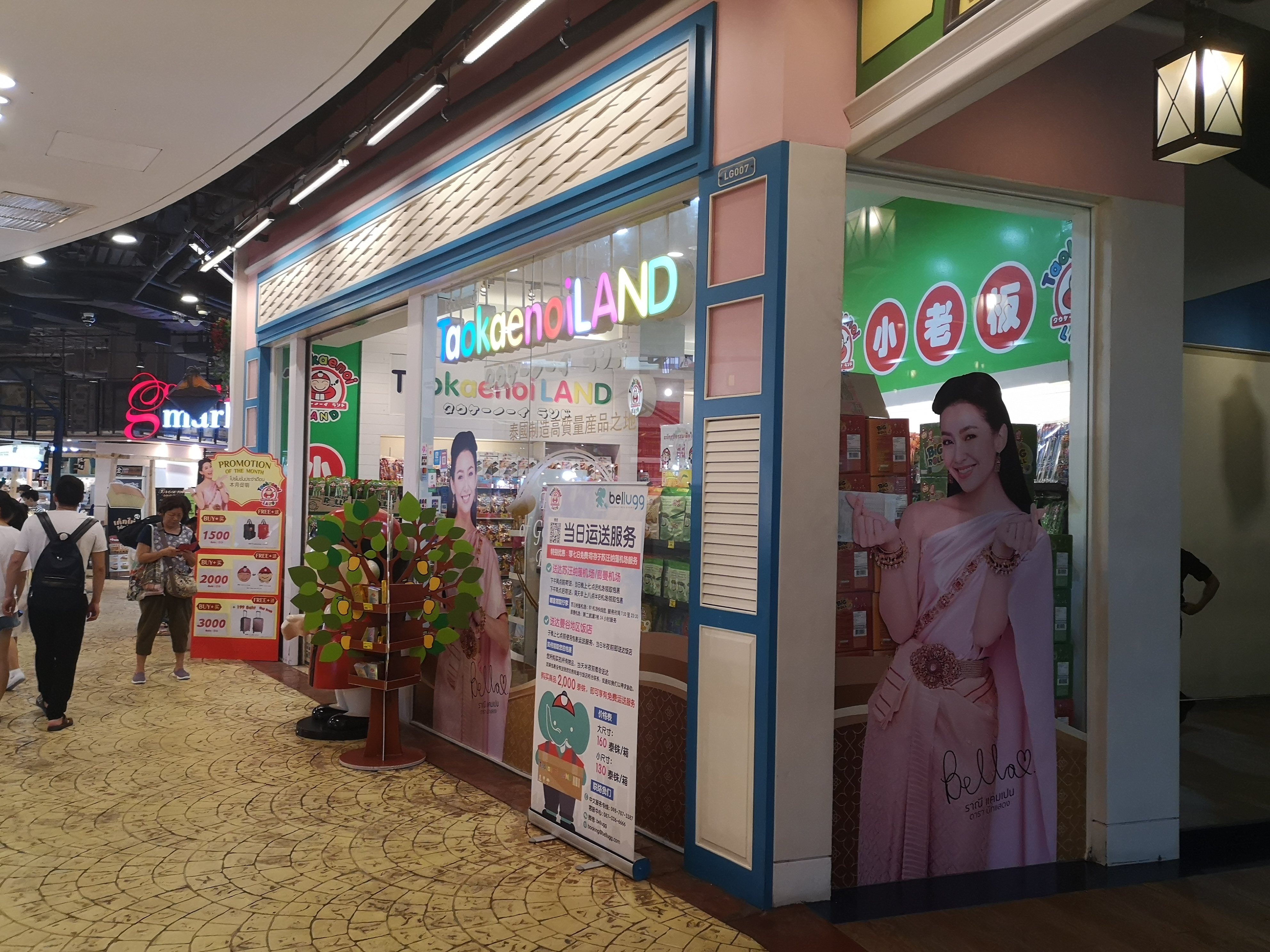 Taokaenoi land at Terminal 21